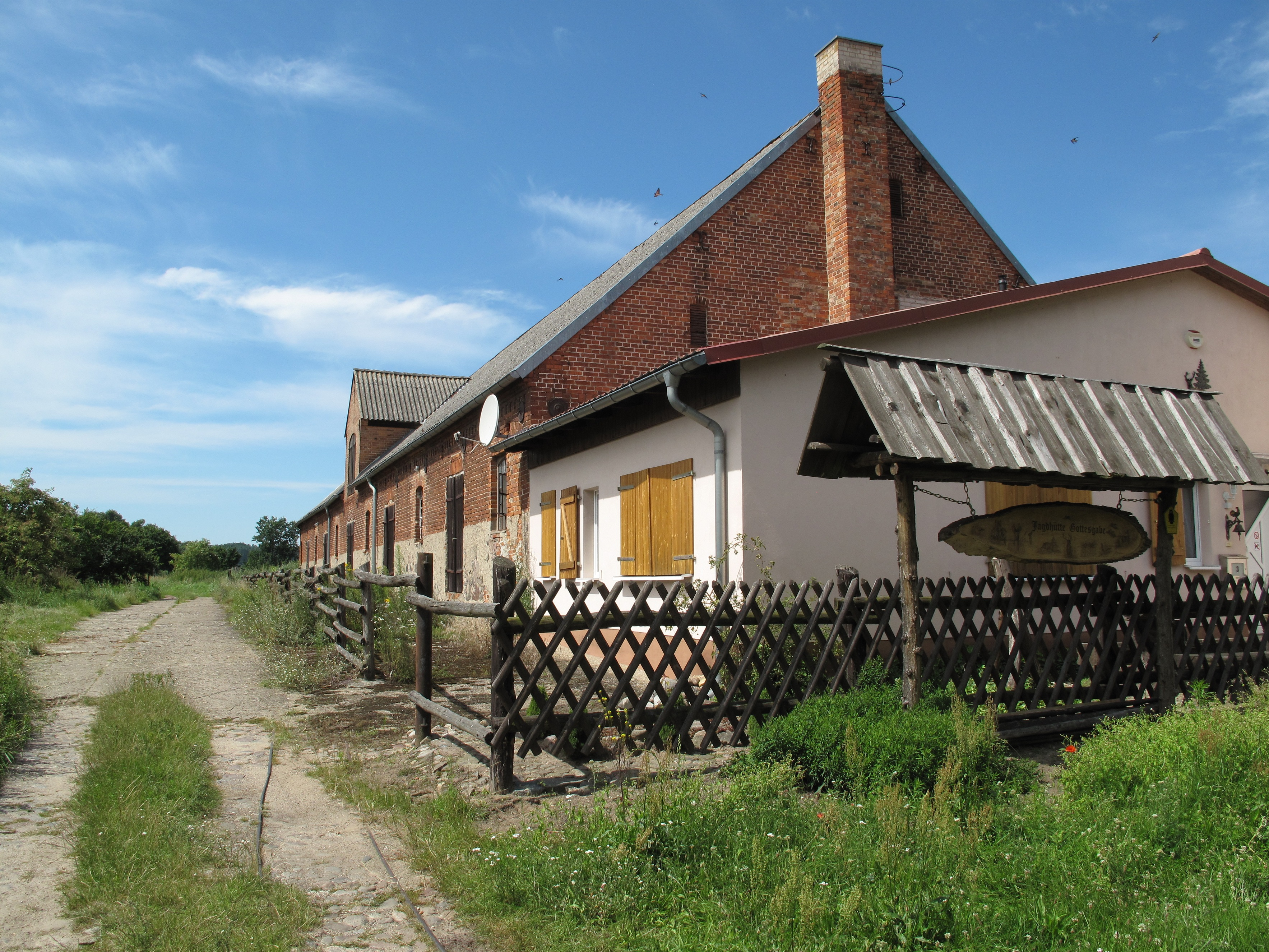 Old farm house in Gottesgabe. Gottesgabe (german for: god's gift) is a part of Altfriedland, a village of the municipality Neuhardenberg in the District Märkisch-Oderland, Brandenburg, Germany. In 1304 Gottesgabe was bought by the Cistercian Nunnery Friedland and was used until the 20th-century as folwark by the following Herrschaft Friedland. In todays village there remind to the old folwark some, mostly dilapidated farm annexes and barns as well as rail profils; some buildings have been restored.